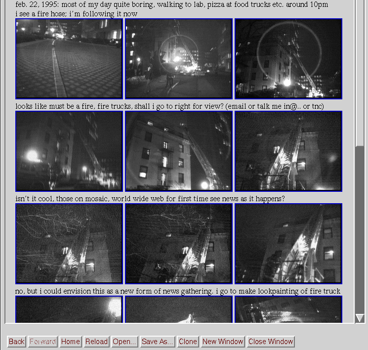 Cyborglog of East Campus Fire.This is an example of a Feb. 1995 logfile from a cybernetic interface (eyetap) system. Such logfiles, known also as cyborglogs effortlessly capture everyday experiences. This example shows how a newsworthy event was captured serendipitously simply while walking around in day-to-day life. Cyborglogs are recordings of an activity made by a participant in the activity, in this case, a passive citizen observer, in the role of citizen passing by, but later interacting with the various people coming out of the building. This is a PNG version of the image. Please link to just the JPEG version within documents, in order to keep file size transfers down to a minimum, except for the occasional user who "clicks through" the image.